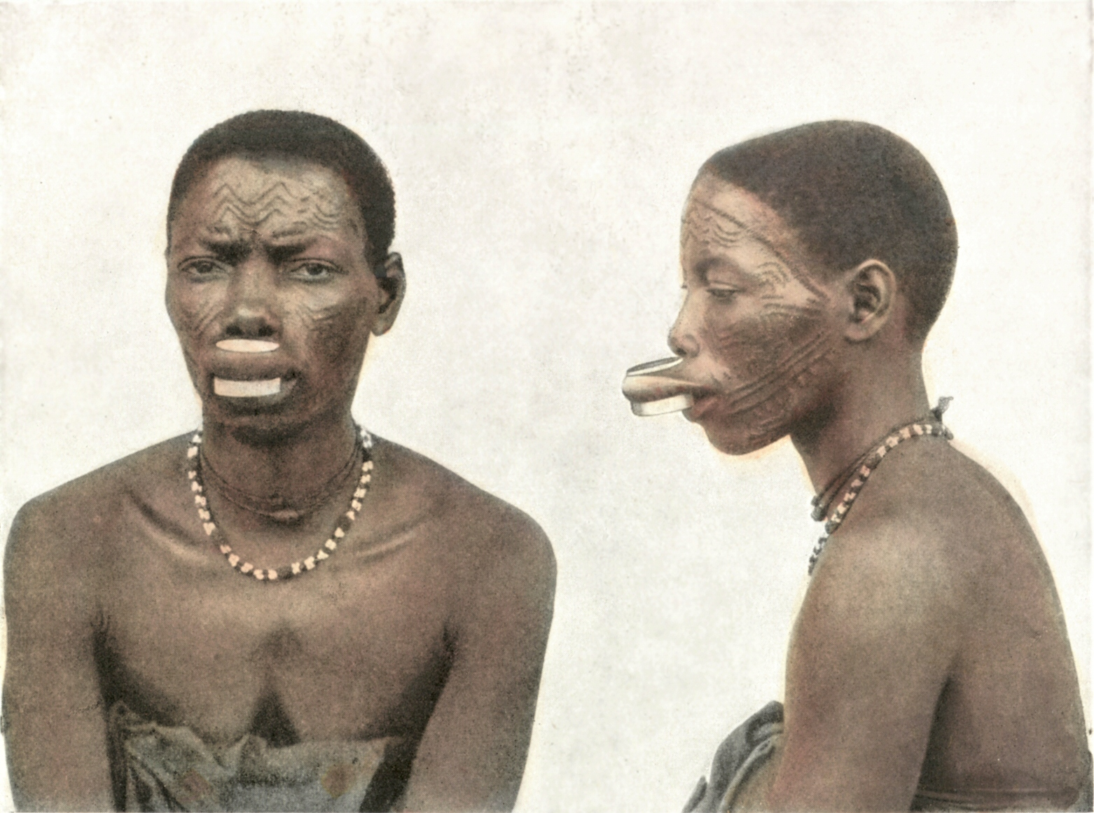 Makonde woman with lip piercing and scarifications in the face.